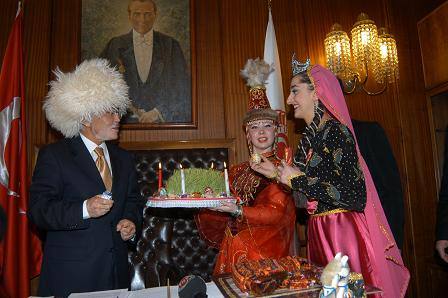 Nevruz Semeni